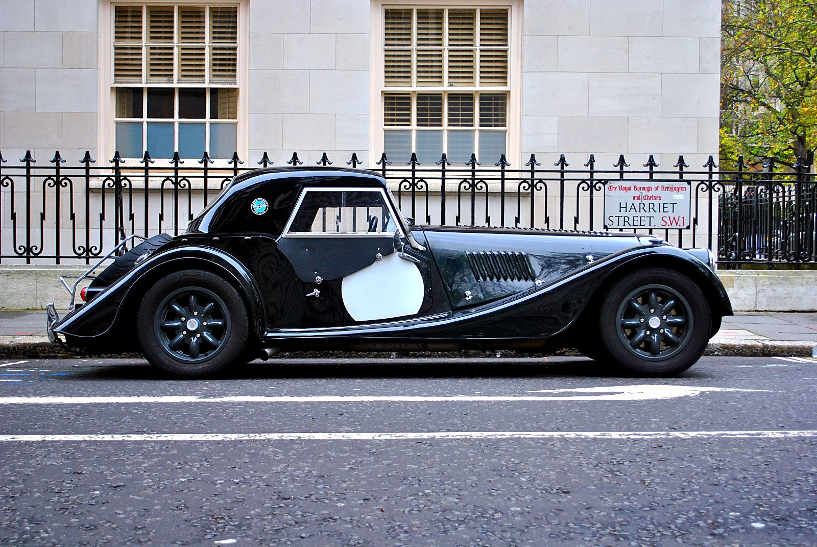 Morgan Plus 8, pictured in Harriet Street in south-west London